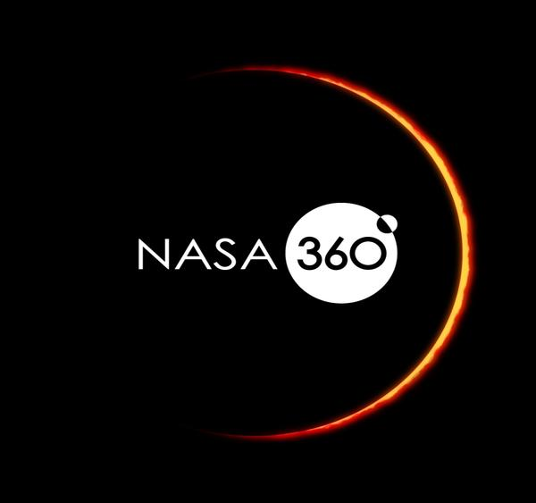 Logo of NASA 360 television show.